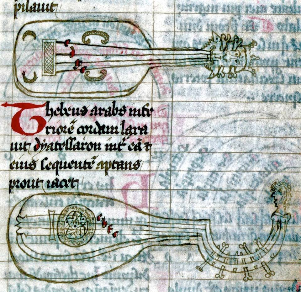 Image that shows two instruments and the way their strings are tuned. The bottom image is a gittern. The top instrument is a citole or a vielle or fiddle. Image from the The Berkeley Manuscript. University of California Music Library, MS. 744.